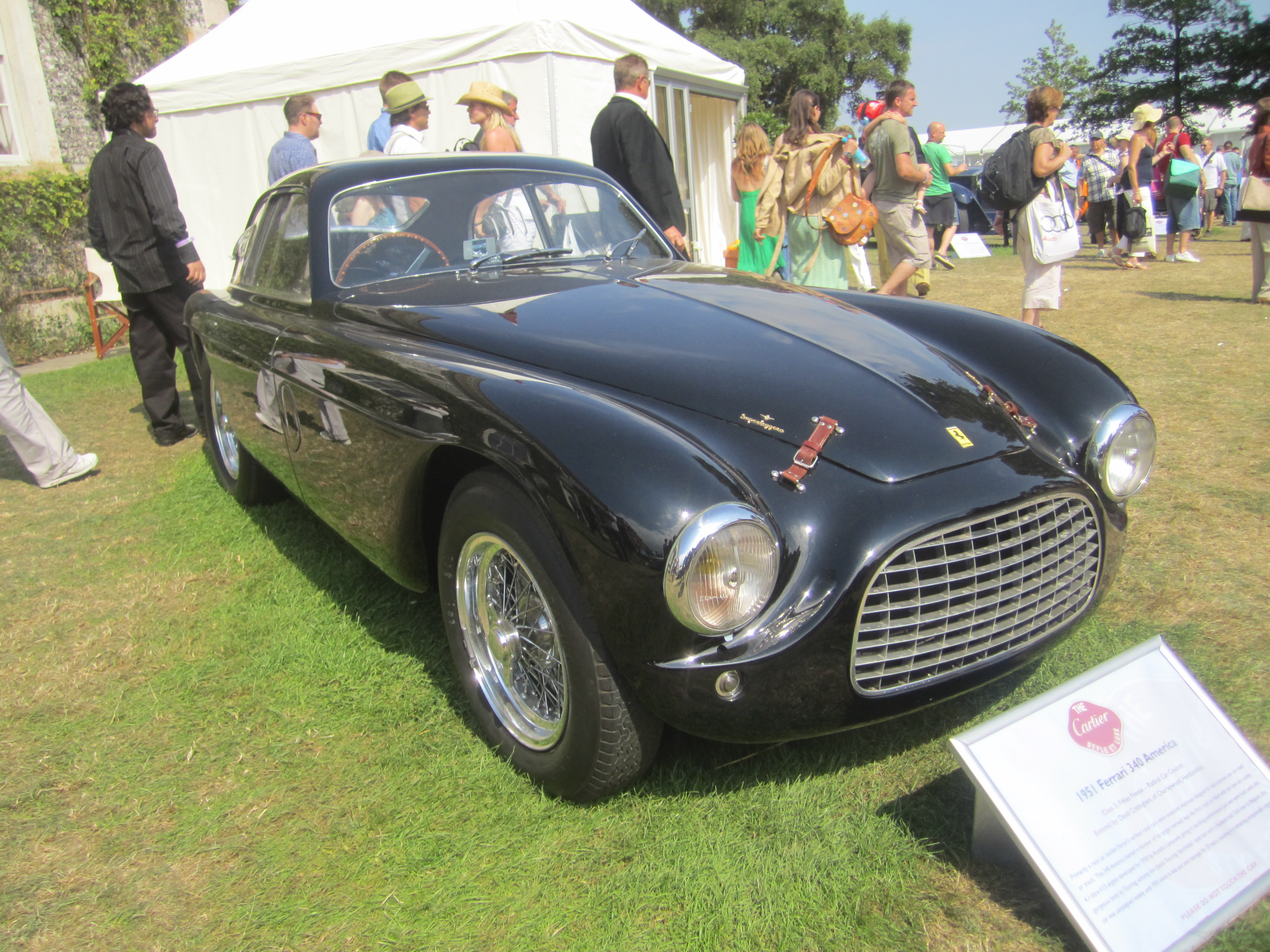 Ferrari 340 America Berlinetta by Touring. Chassis #122A.[1]. Taken at the Goodwood Festival of Speed England 2011-Cartier Style Et Luxe Concours D'elegance.